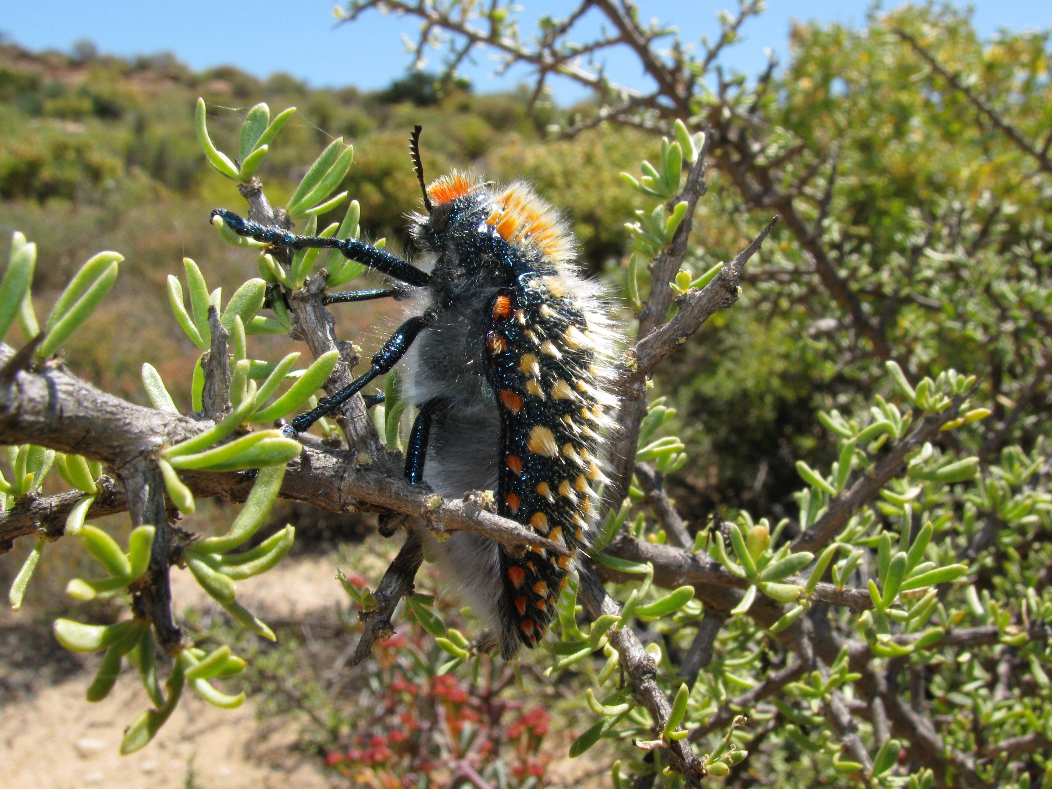 IVO of Springbok, Namaqualand, Northern Cape, South Africa. Photo © Andrey Sochivko.